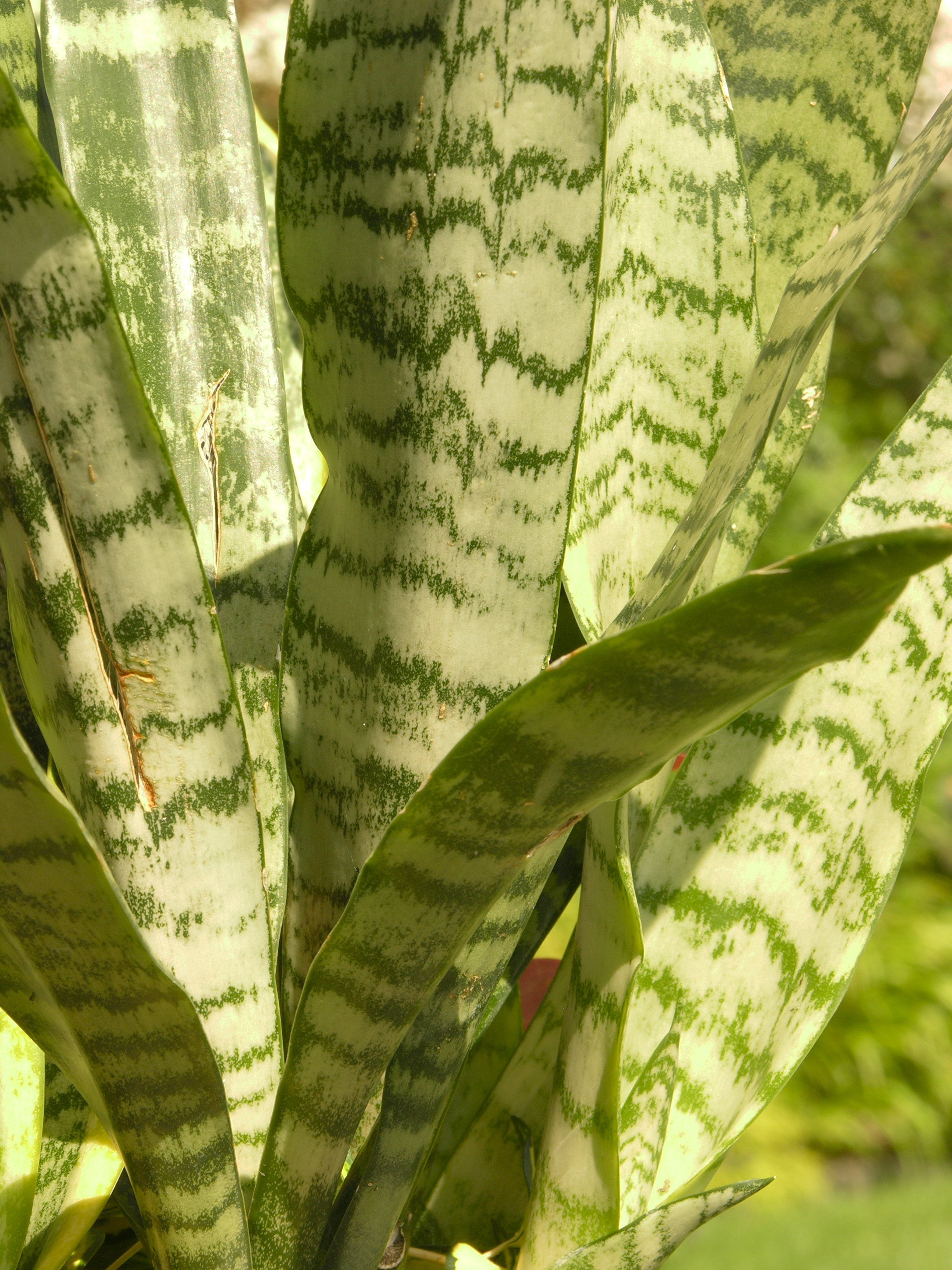 A picture the Snake Plant (Sansevieria trifasciata en ) plant. Photo taken at the Chanticleer Garden where it was identified.